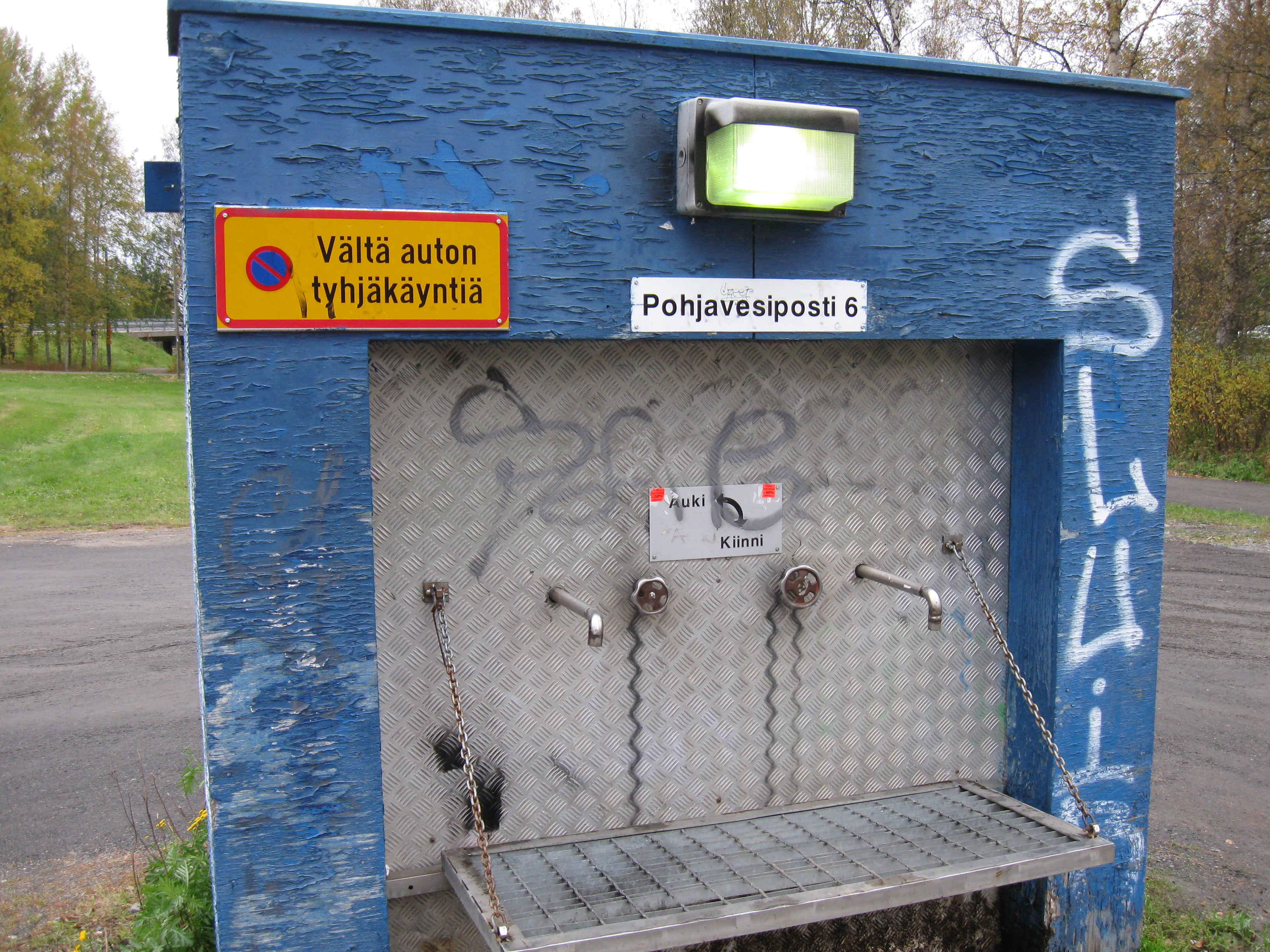 A groundwater supply station at Huuhkajanpuisto in Kontinkangas, Oulu,Finland.